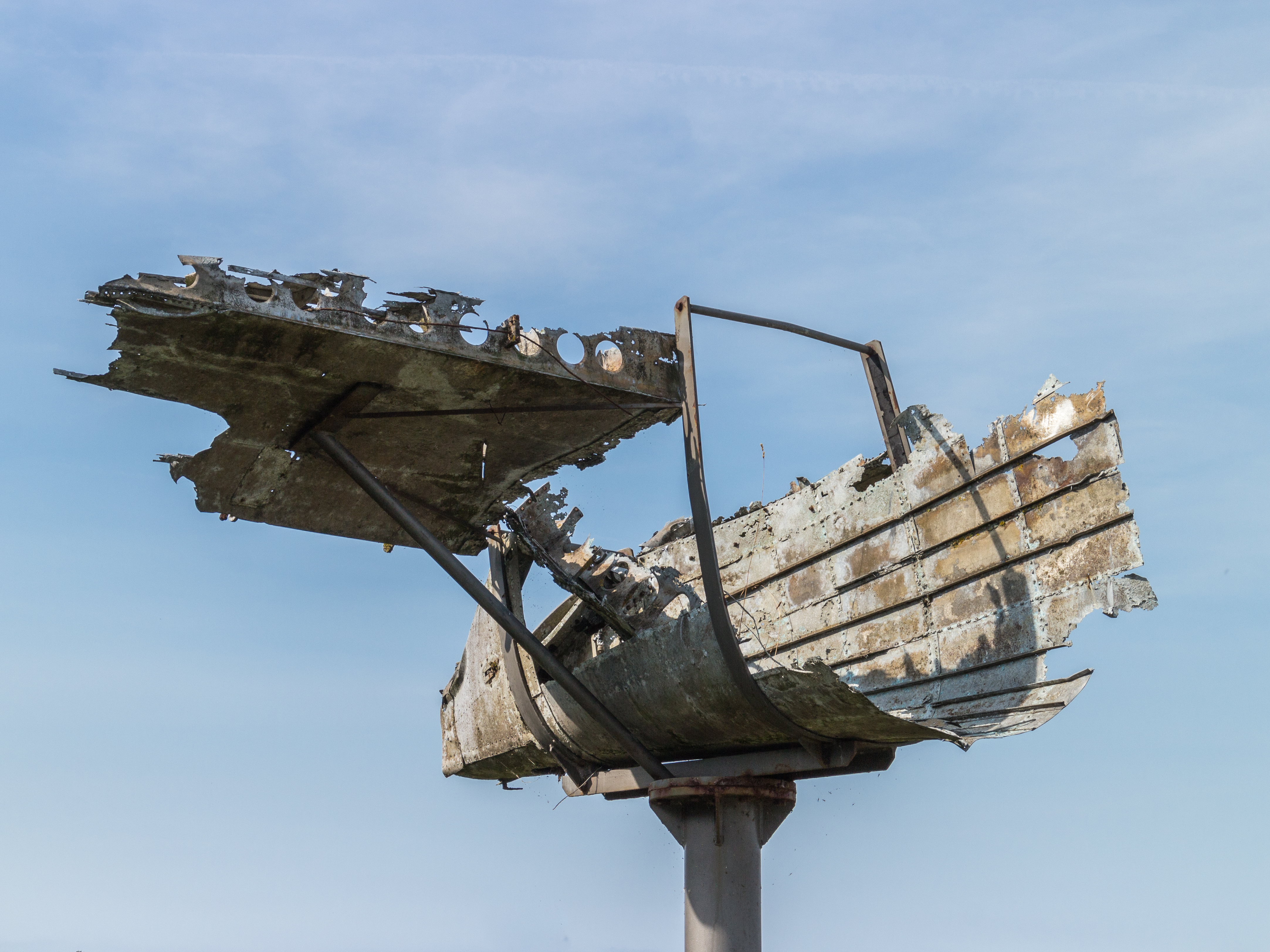 Kornwerderzand. Fatal flight Lockheed Hudson FK 790.